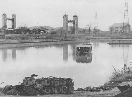 Fushimi Port in the pre-war Showa era